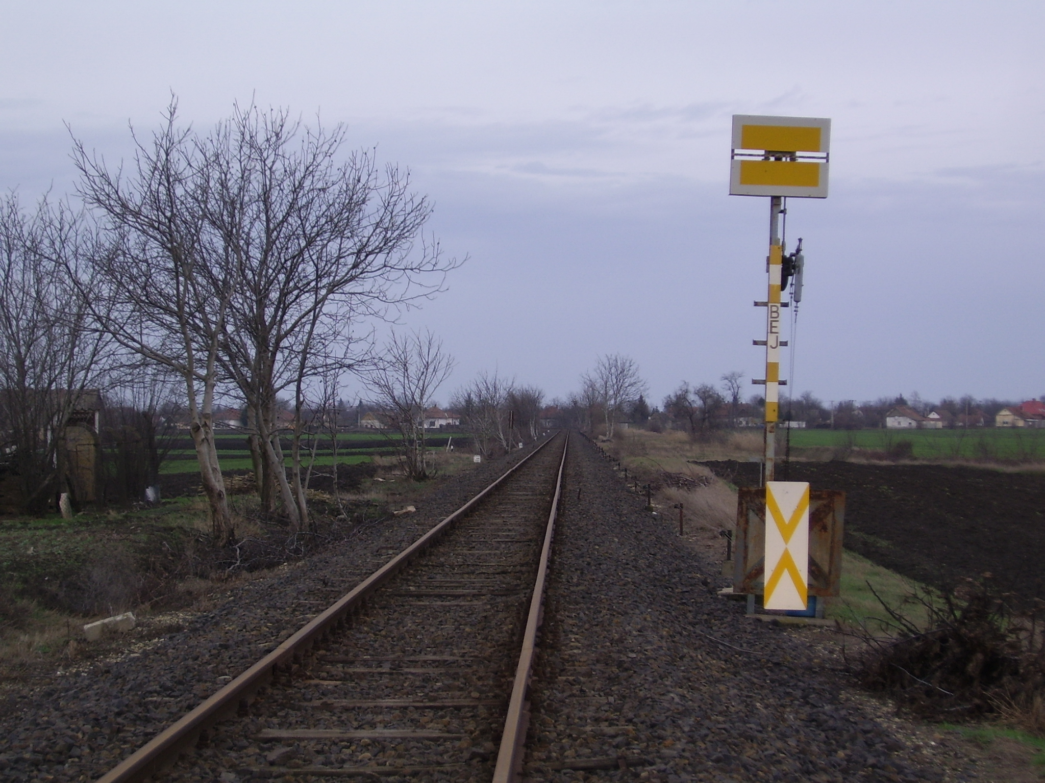 The Hódmezővásárhely-Makó railway line in Földeák, Hungary